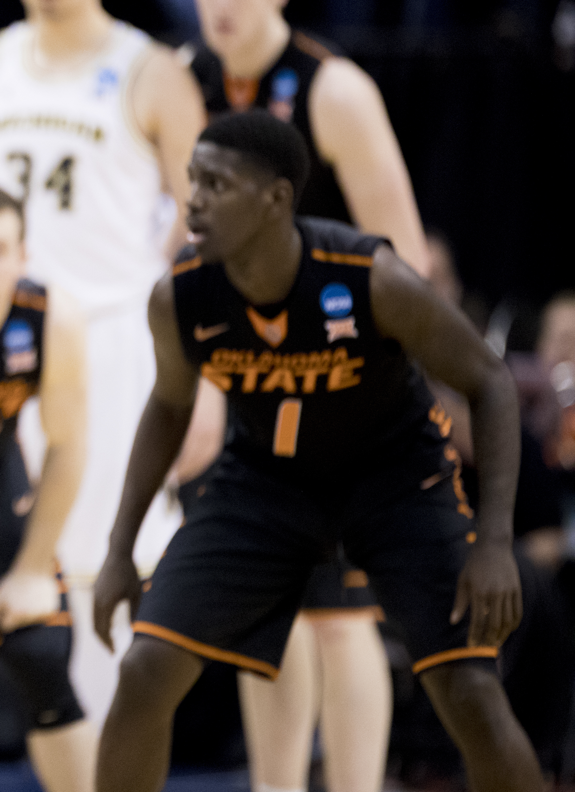 Jawun Evans vs. Michigan